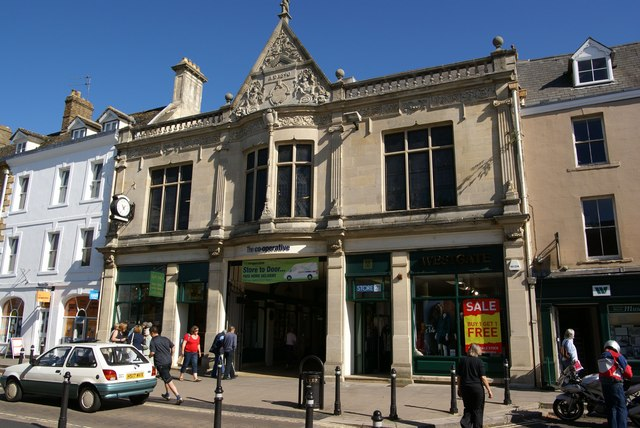 Co-Operative supermarket, High Street, Chipping Norton, Oxfordshire